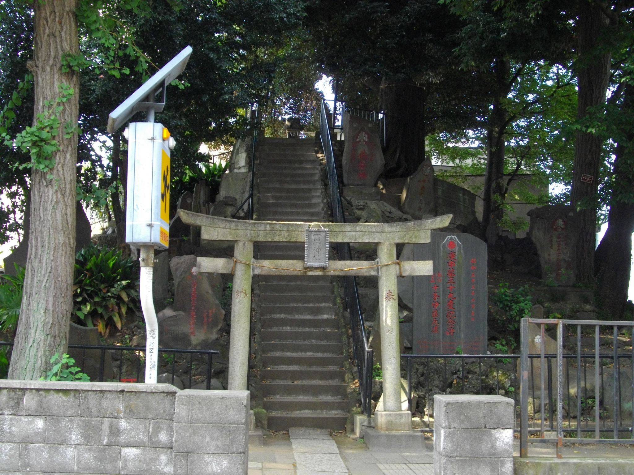 Jujo Fujizuka